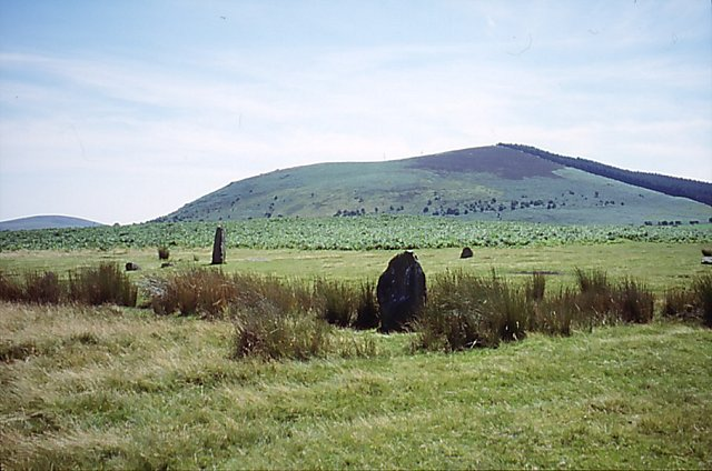 Mitchells Fold Stone circle on a flattish common beneath Corndon Hill.